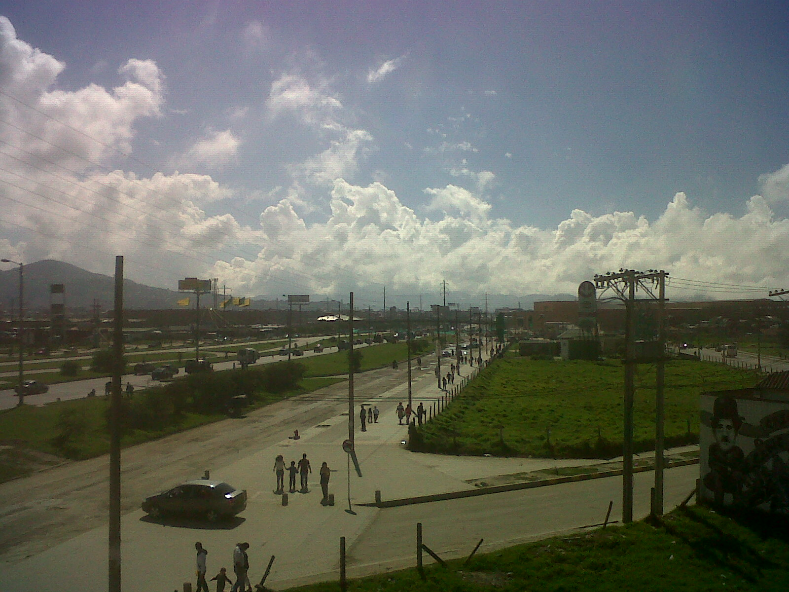 Soacha's Carrera Septima (also Seventh Carrera), know as name of The Parallel (La Paralela) in Rincón de Santa Fe neighborhood